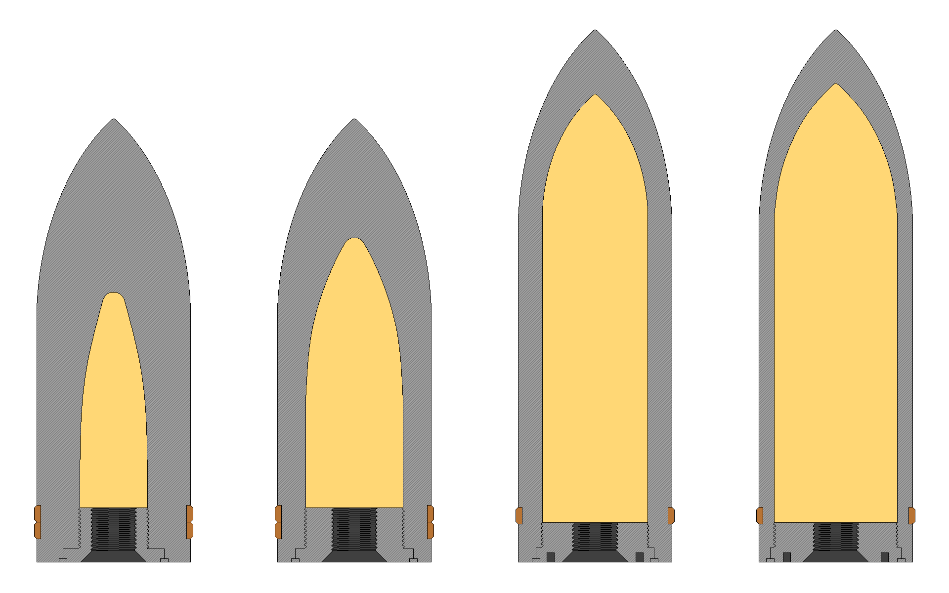 Picture that shows: APHE, SAPHE, HE and Mine shells.